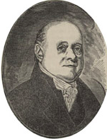 Ward Chipman (1754–1824)